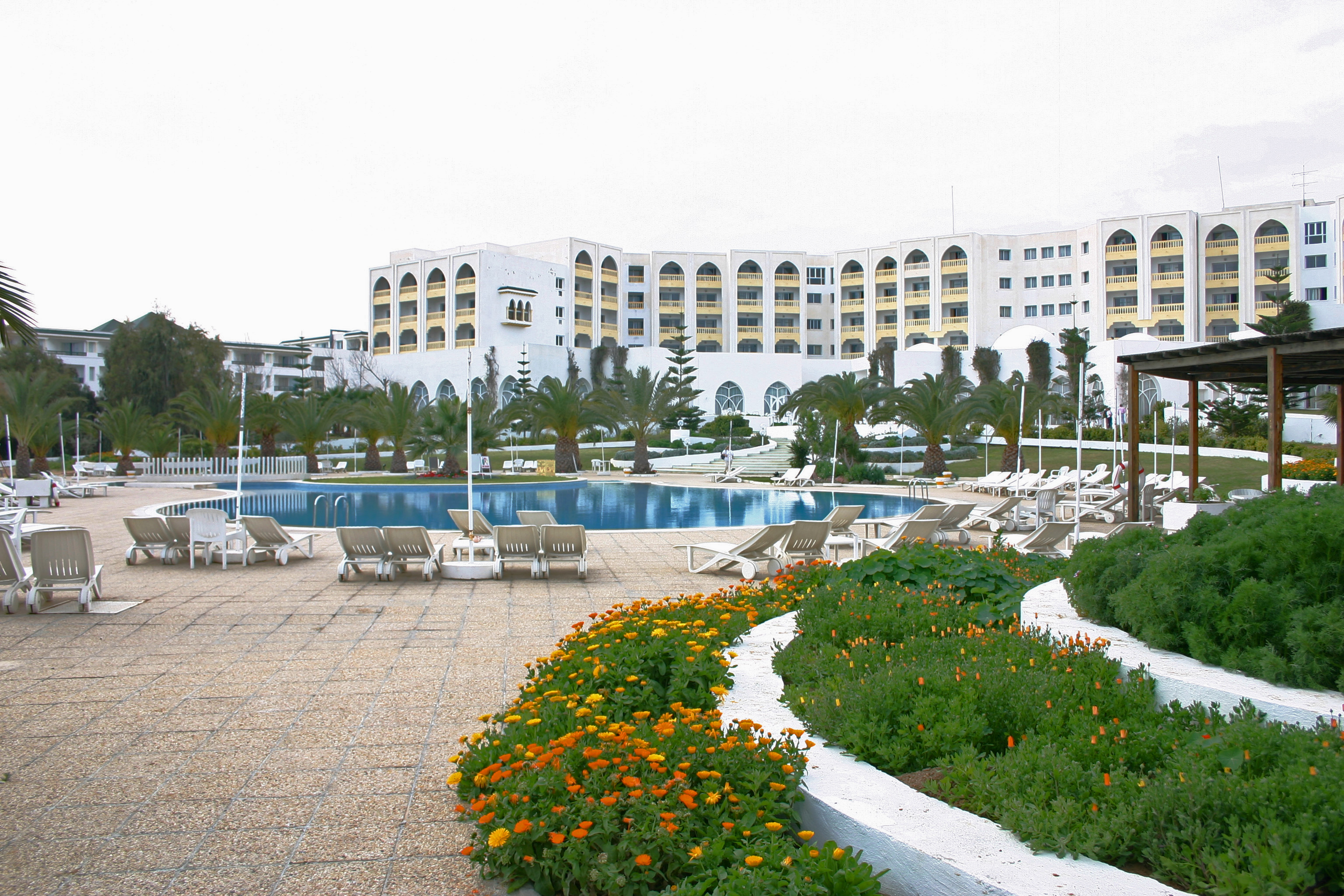 Very dull day at the pool.